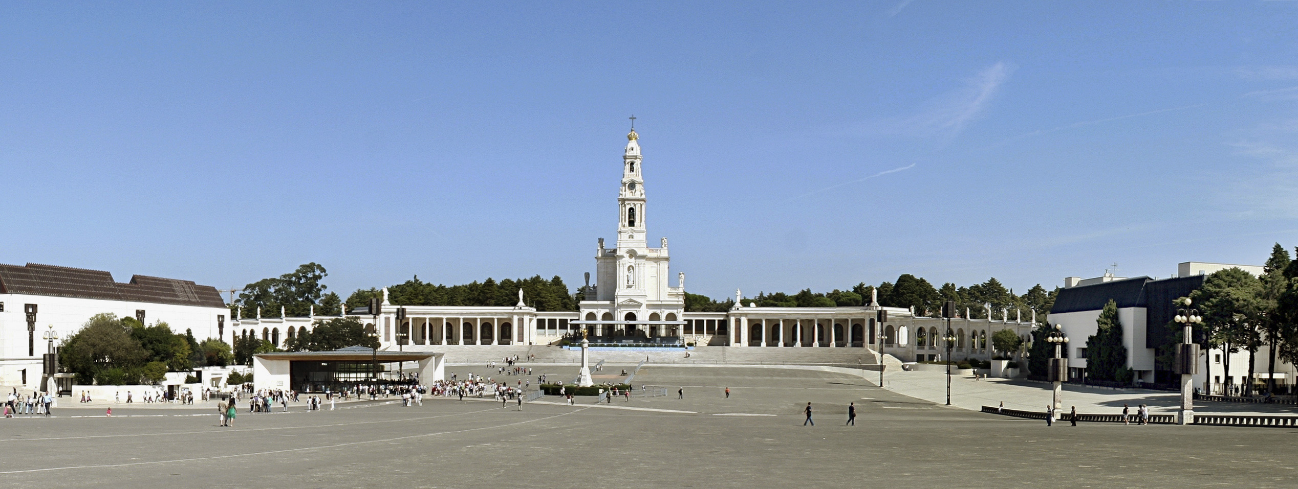 Fatima Main Square